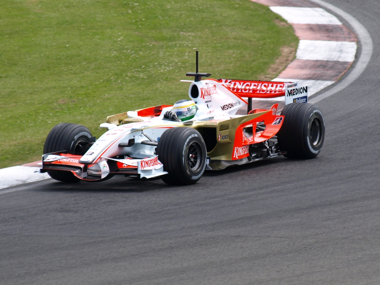 Giancarlo Fisichella testing for Force India at Silverstone Circuit in June 2008.